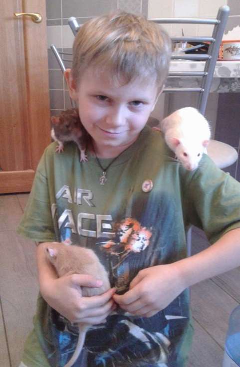 Young researcher interregional conference are winners research and design work of students 2014 ( history and evolution of communities rat domestication of the rat ) The author of children's Synkov Timothy member associations "Spring" Environmental Center EcoSphere Lipetsk , Russia